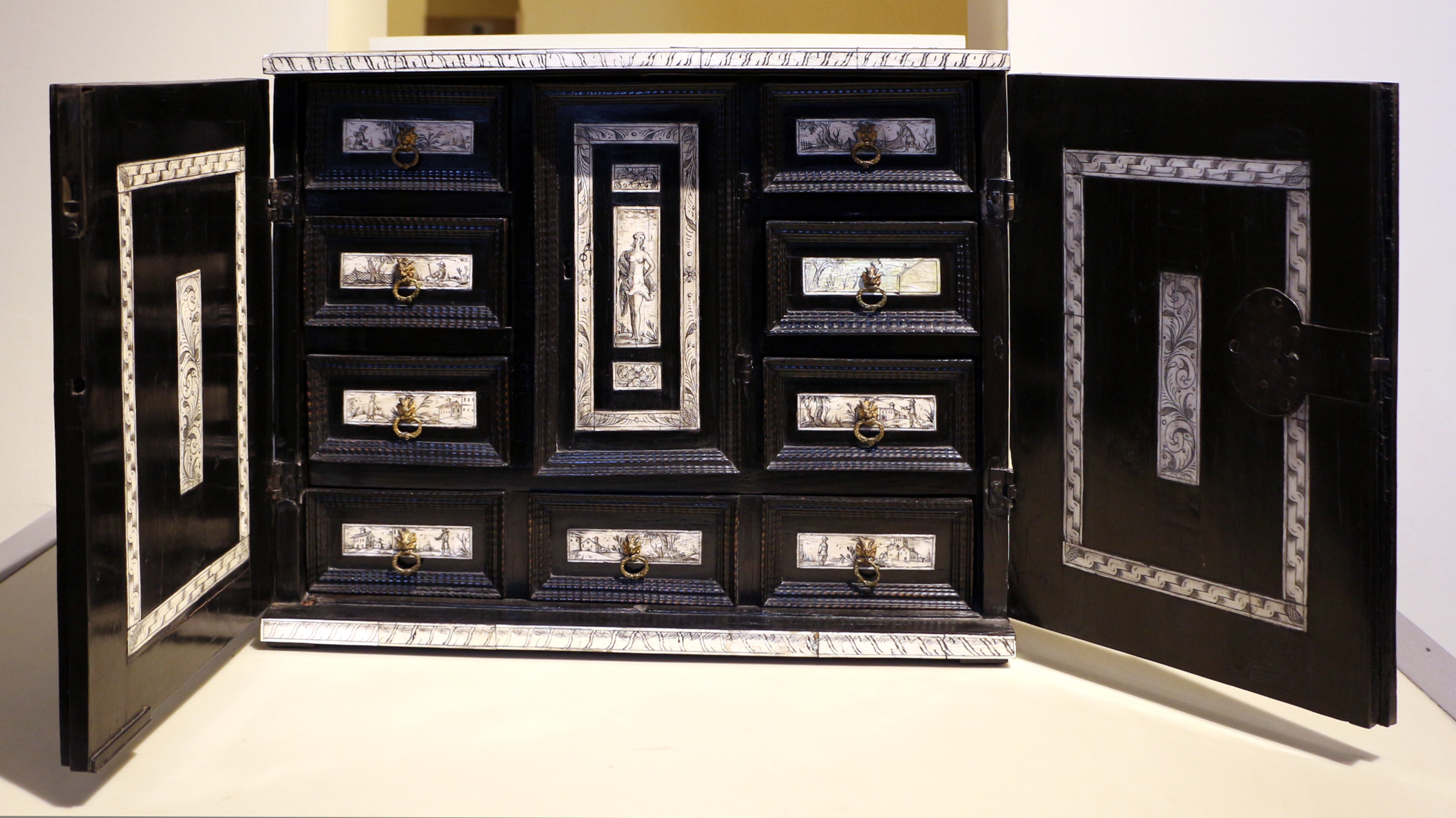 Furniture Museum (Milan)